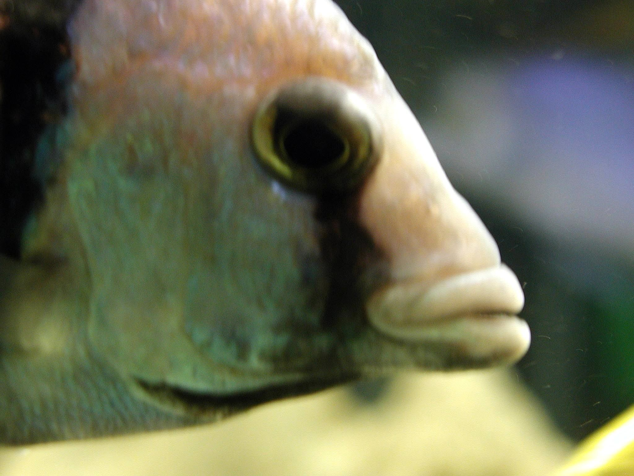 Image title: Aquarium fish close up Image from Public domain images website